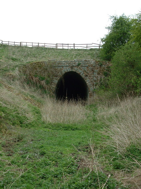 The eastern entrance to Benniworth tunnel. This is the shorter of the two tunnels on the disused Louth to Bardney railway line